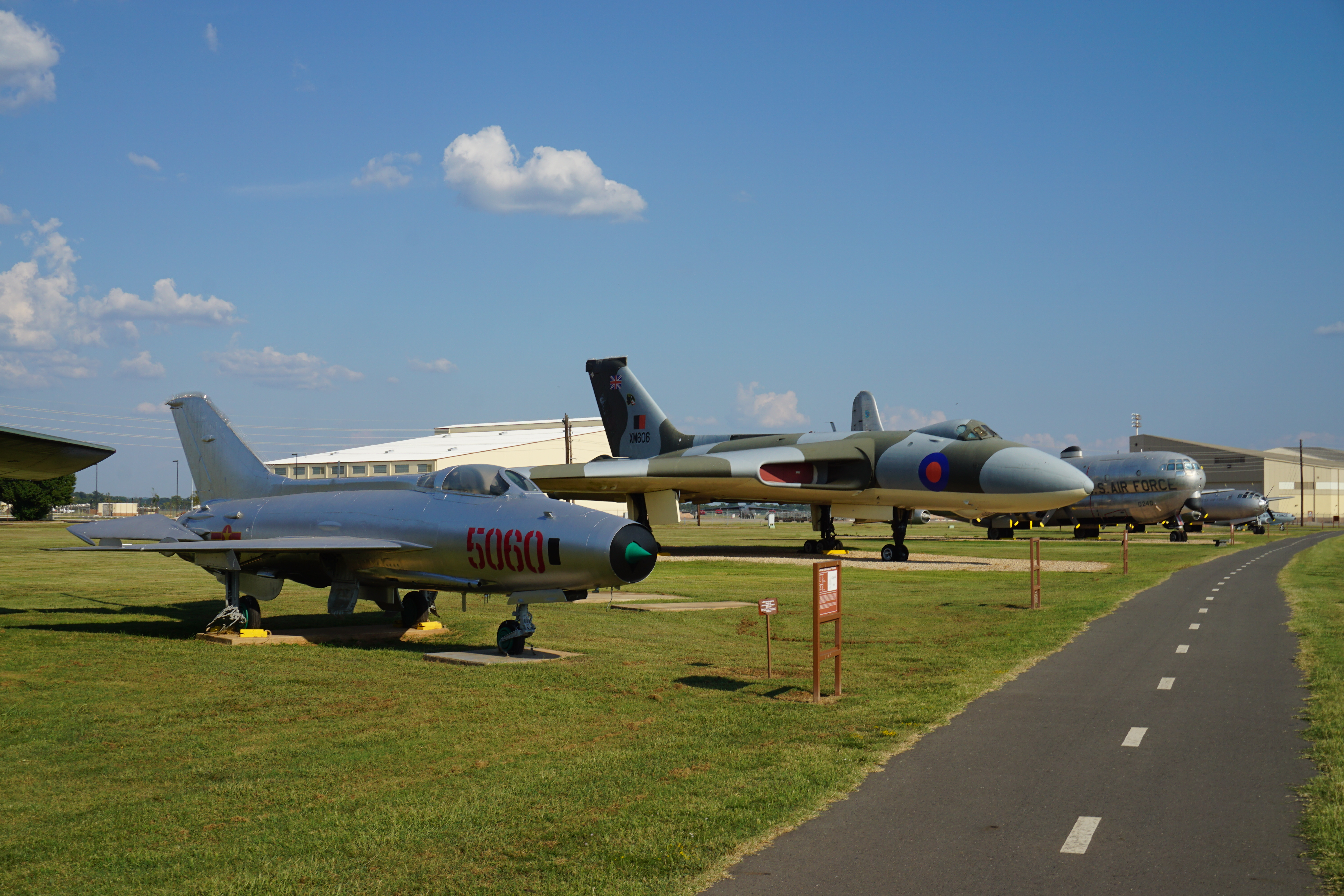 Aircraft on display at the Barksdale Global Power Museum at Barksdale Air Force Base near Bossier City, Louisiana (United States). Visible are a Mikoyan-Gurevich MiG-21F, an Avro Vulcan B.2, a Boeing KC-97G/L Stratofreighter, and a Boeing B-29 Superfortress.